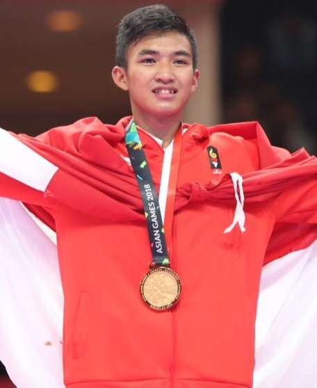 Rifki Ardiansyah at the 2018 Asian Games, after winning a gold medal in men's 60kg kumite